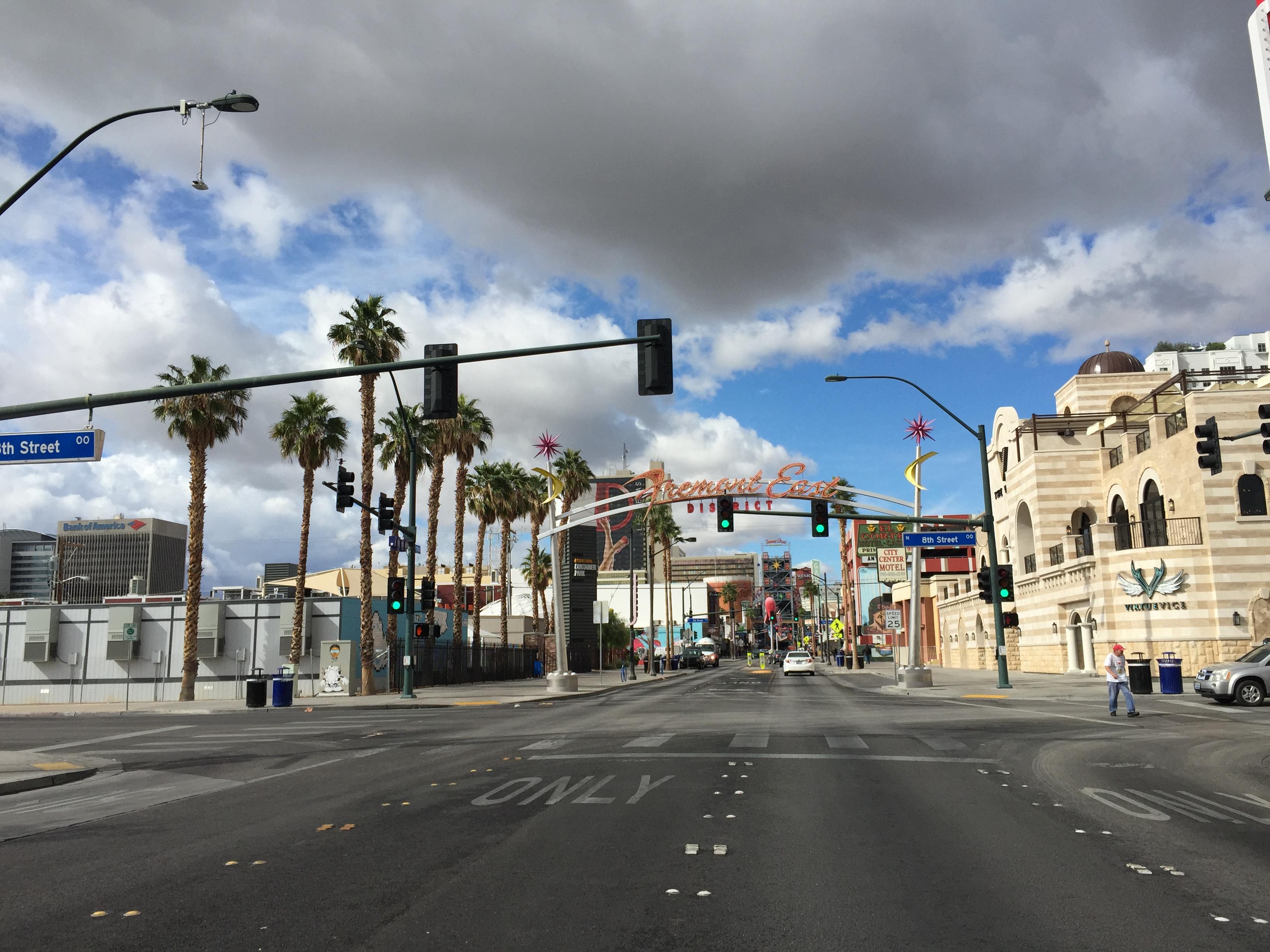 View north at the north end of Nevada State Route 582 (Fremont Street) at the Fremont East District in downtown Las Vegas, Nevada